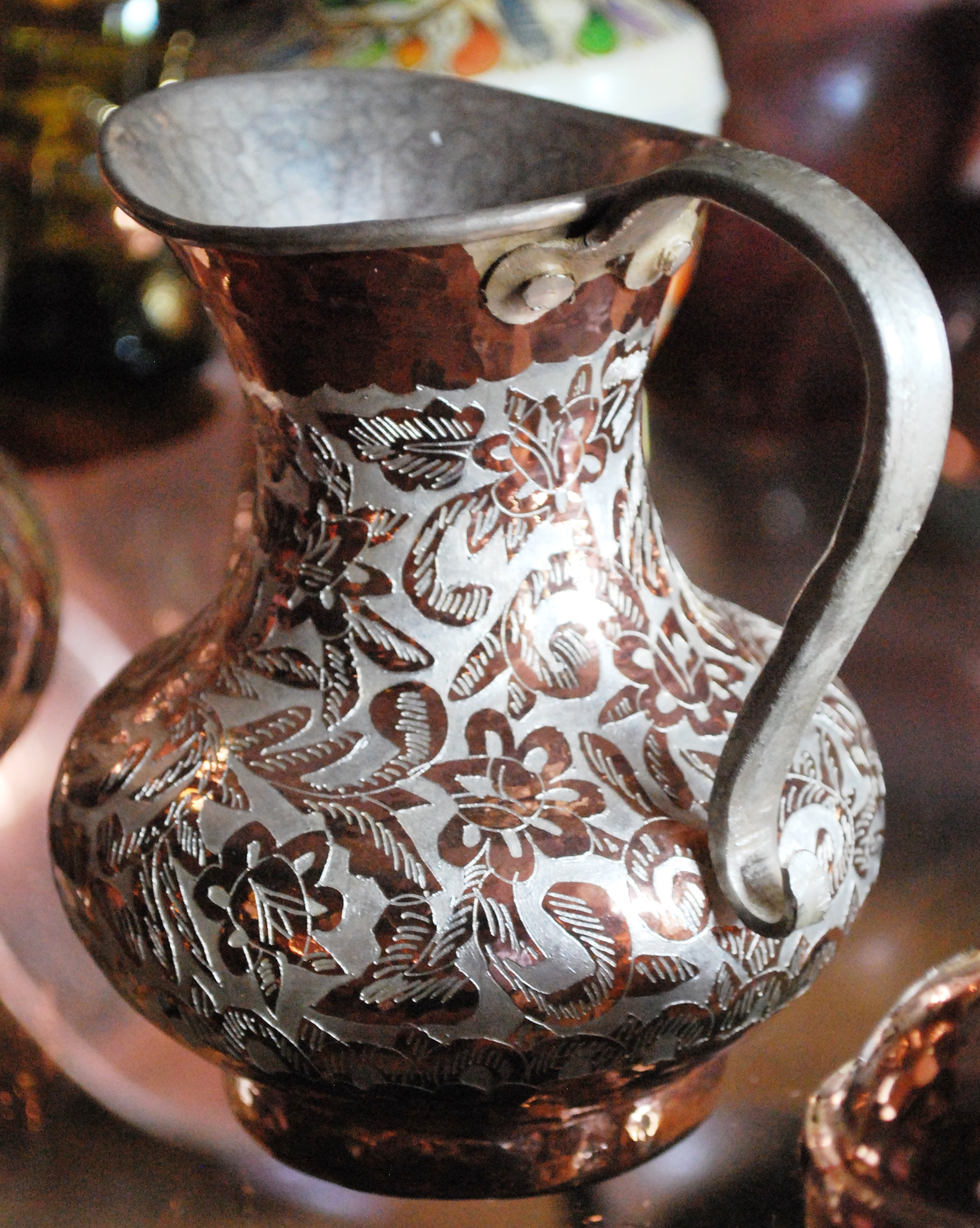 Copper pitcher on display at Santa Clara del Cobre, Michoacán